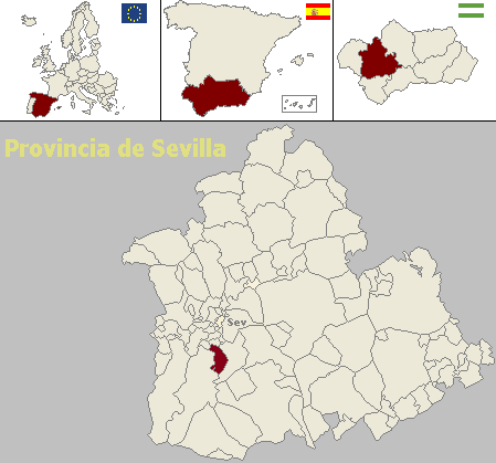 Coria del Río